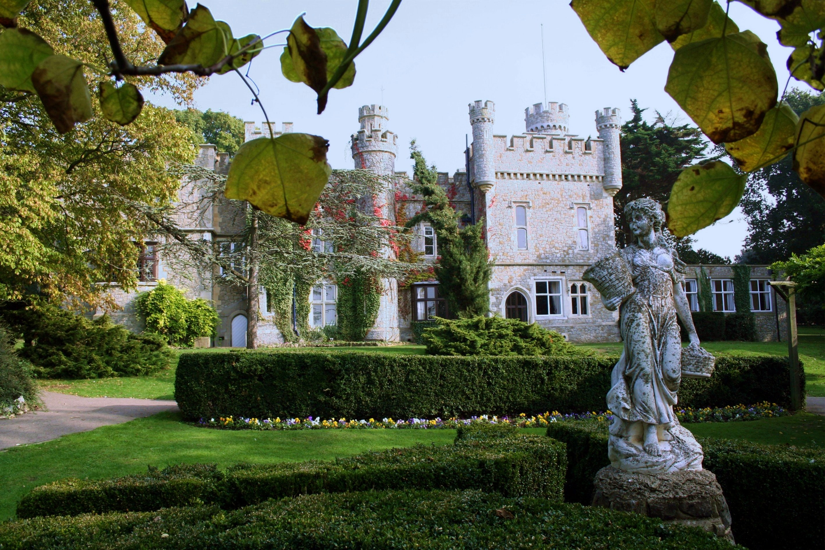 Whitstable Castle from the Gardens